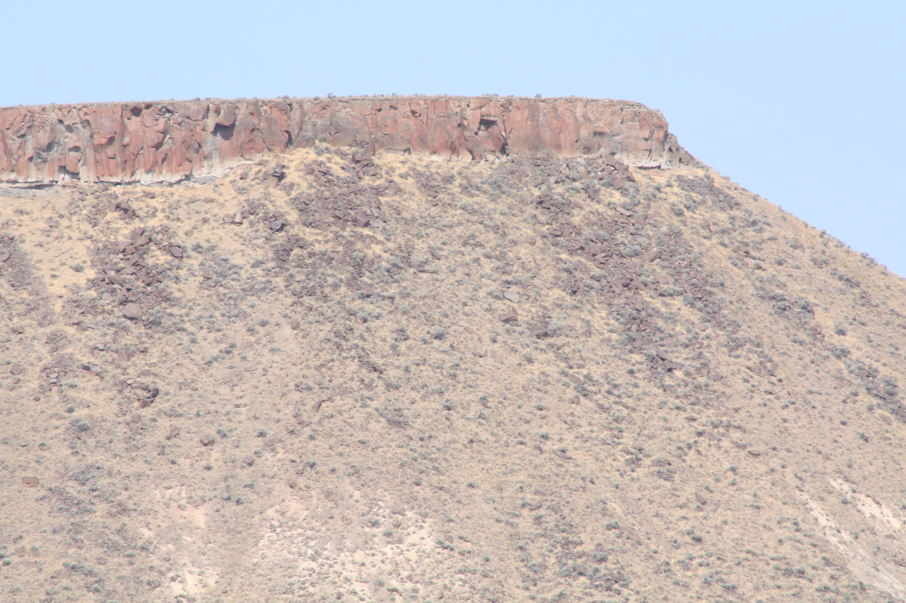 Telephoto lens image of an exposure of the Rattlesnake Formation just west of Picture Gorge in central Oregon, taken from the Mascall Overlook. The caprock at the top is the ignimbrite in the middle of the formation.